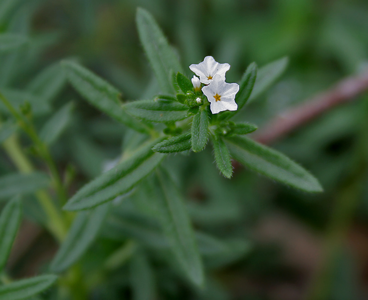 Heliotropium strigosum (syn. H. constrictum, H. longifolium, H. pygmaeum) in Keesara, Rangareddy district, Andhra Pradesh, India.